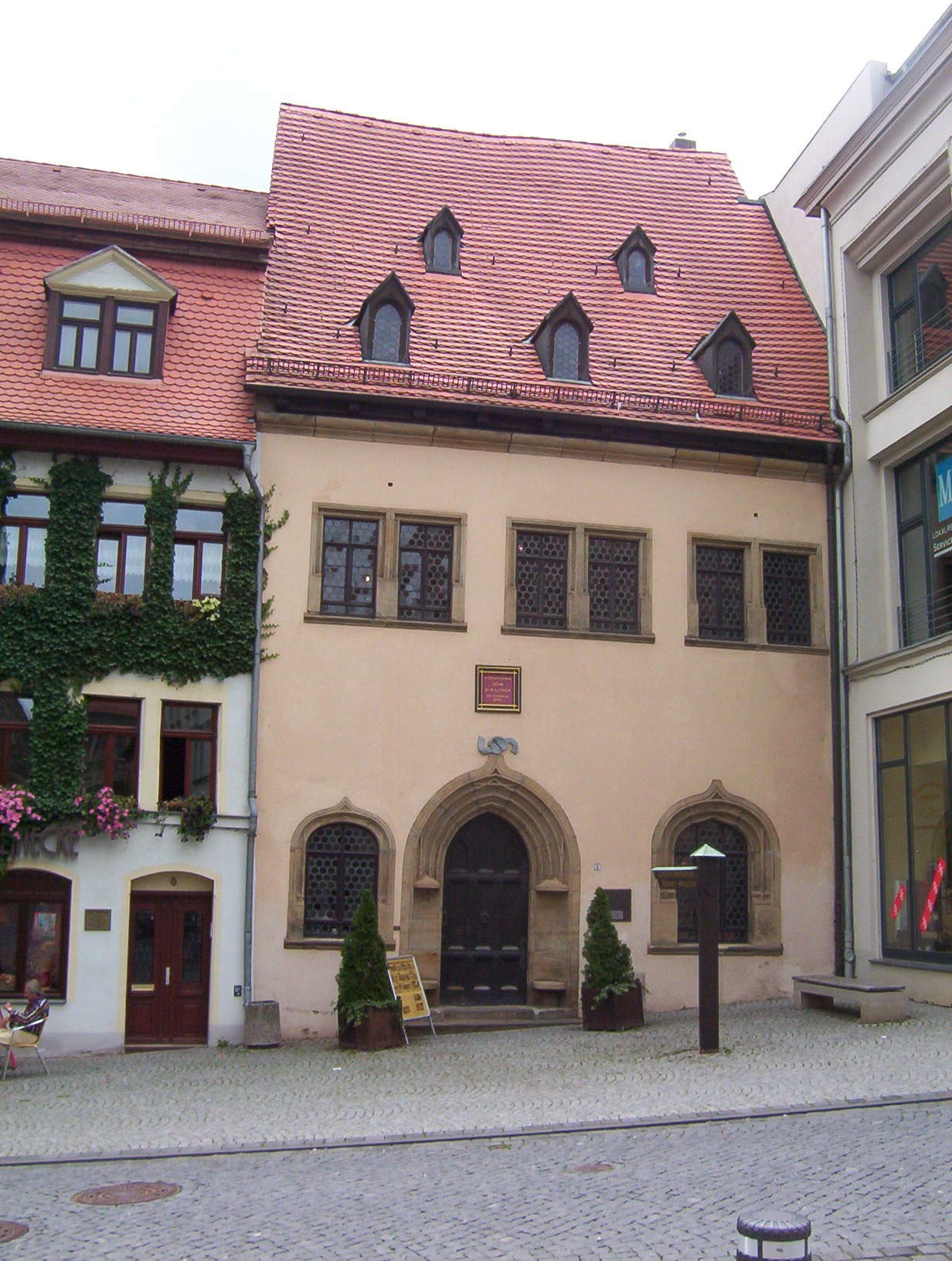 Martin Luther died in this house in 1546